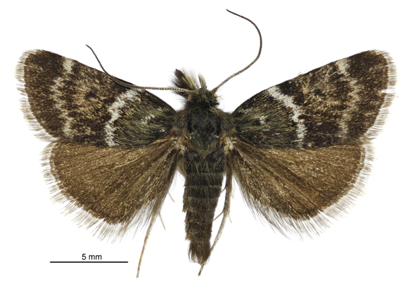 Male specimen of Tauroscopa gorgopis photographed by Birgit E. Rhode, Landcare Research New Zealand Ltd.